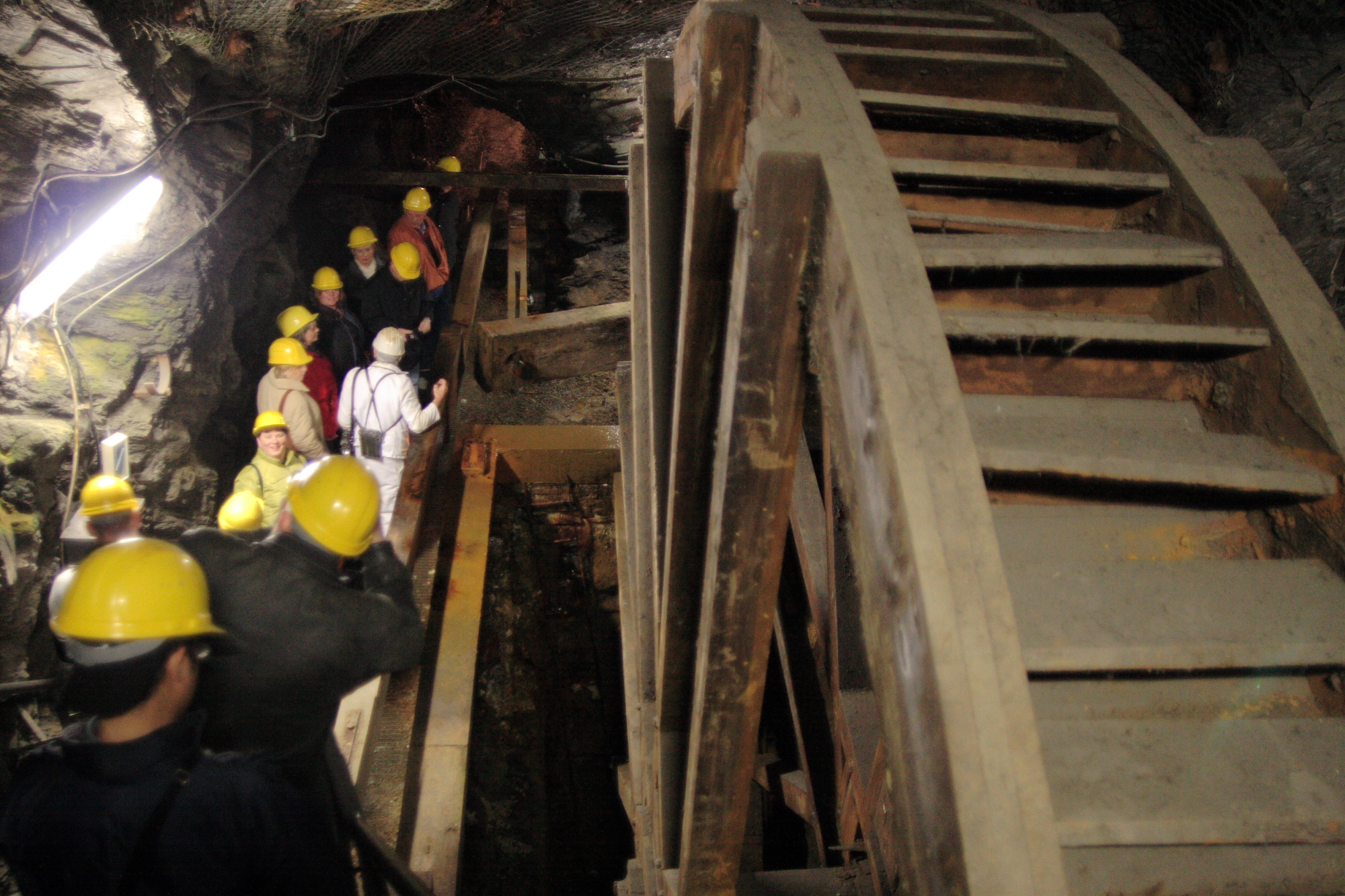 An underground water mill of mine Rammelsberg. Deutschland, Goslar.